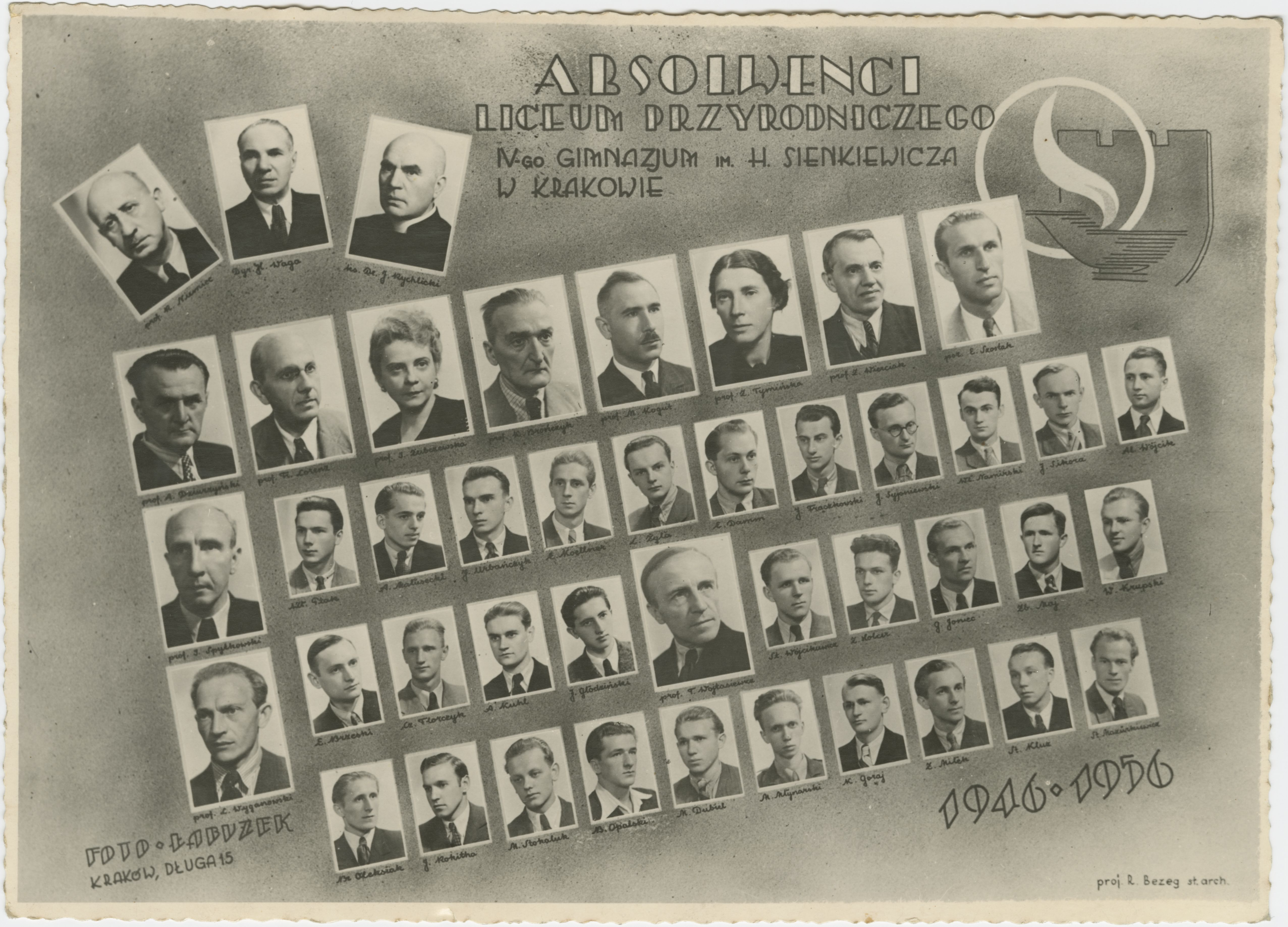 Table with photographs of graduates of the IV Henryk Sienkiewicz High School and Gymnasium of Natural Sciences in Kraków, Poland in 1946.